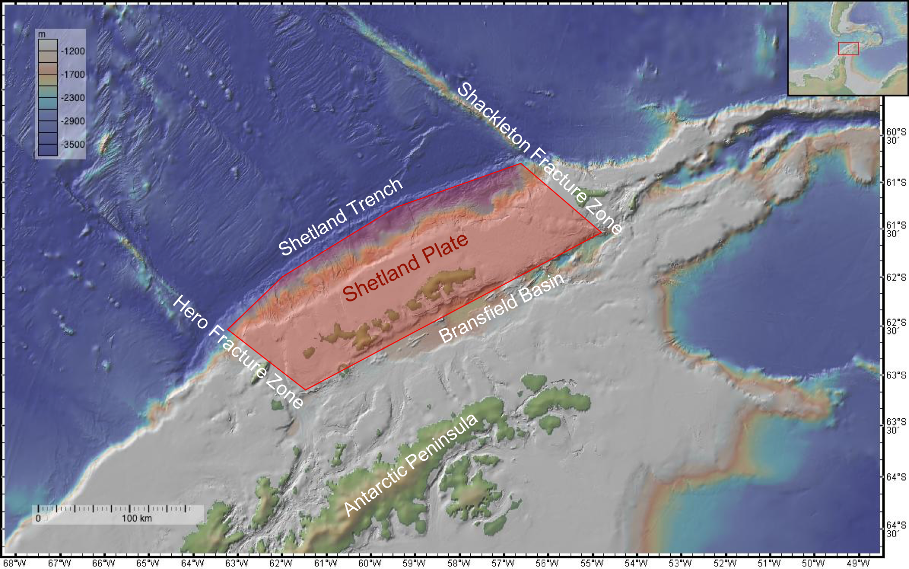 Baythemetric map of the Shetland Plate with the boundaries labeled.